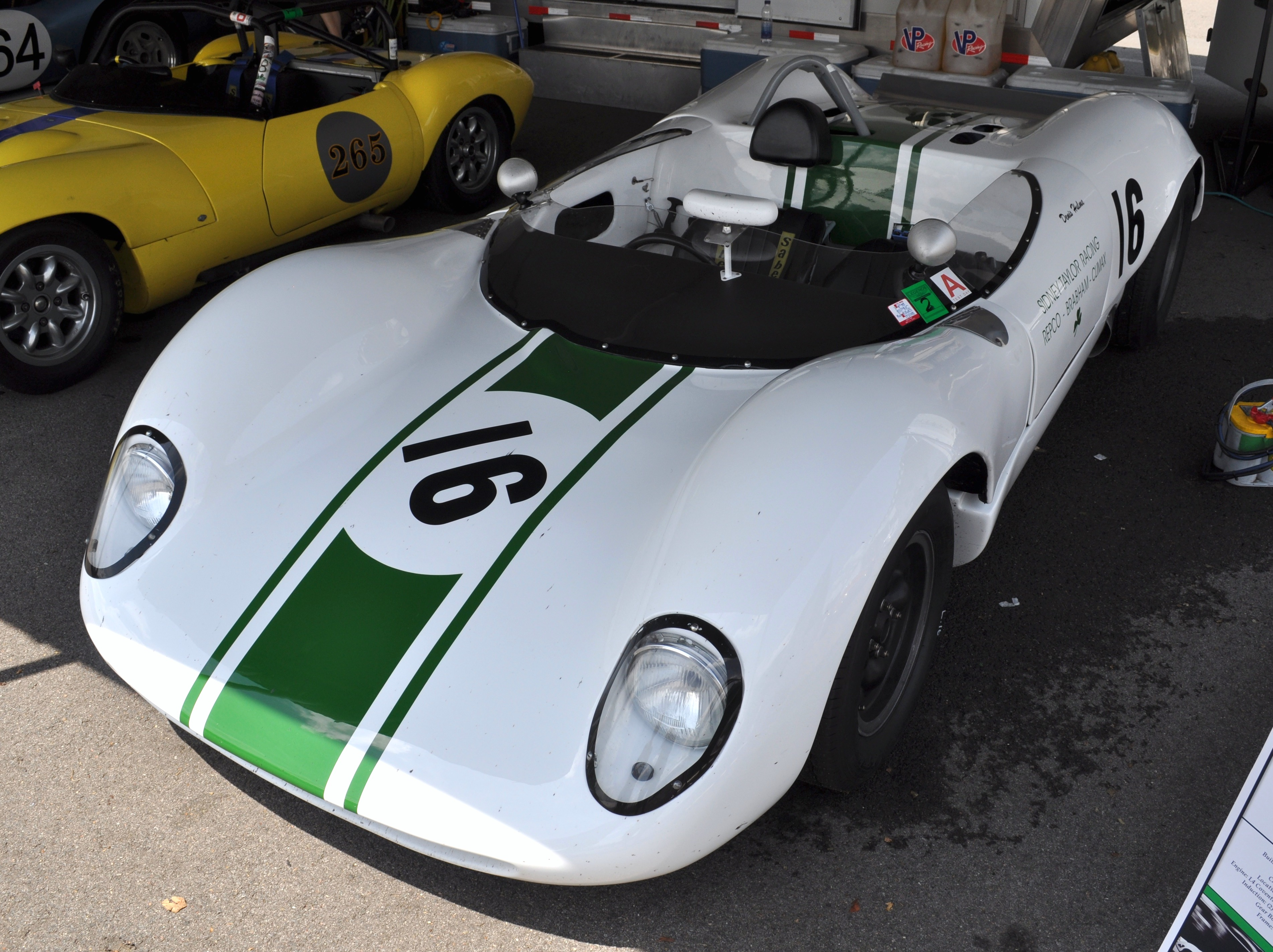 A Brabham BT8 racing sports car, in the paddock at Circuit Mont-Tremblant during the 2010 Legends of Motorsport meeting.